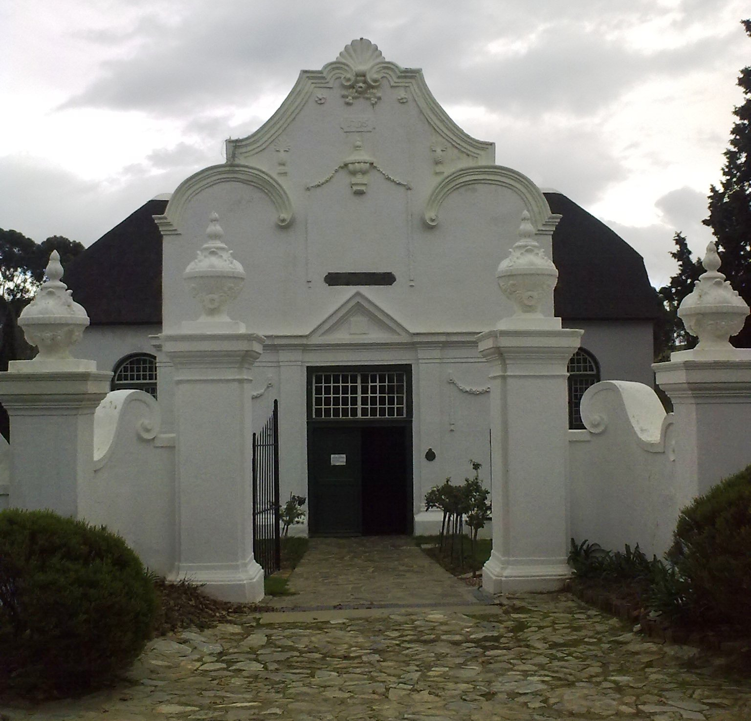 The Old Church Museum is the oldest (1754) cross-form church in South Africa and houses a wonderful collection of Cape furniture. This media shows a South African Protected Site with SAHRA file reference 9/2/094/0021.